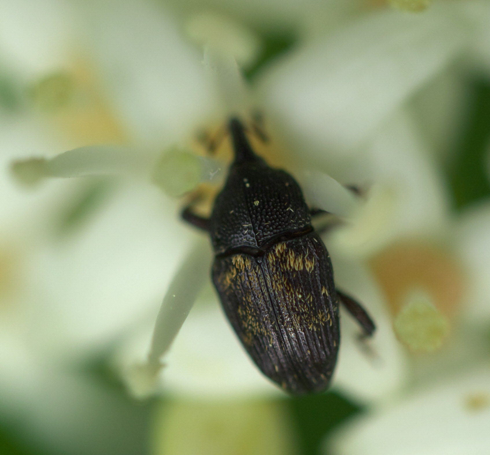 Glyptobaris lecontei, Subfamily: Flower Weevils, ID Confidence: 88